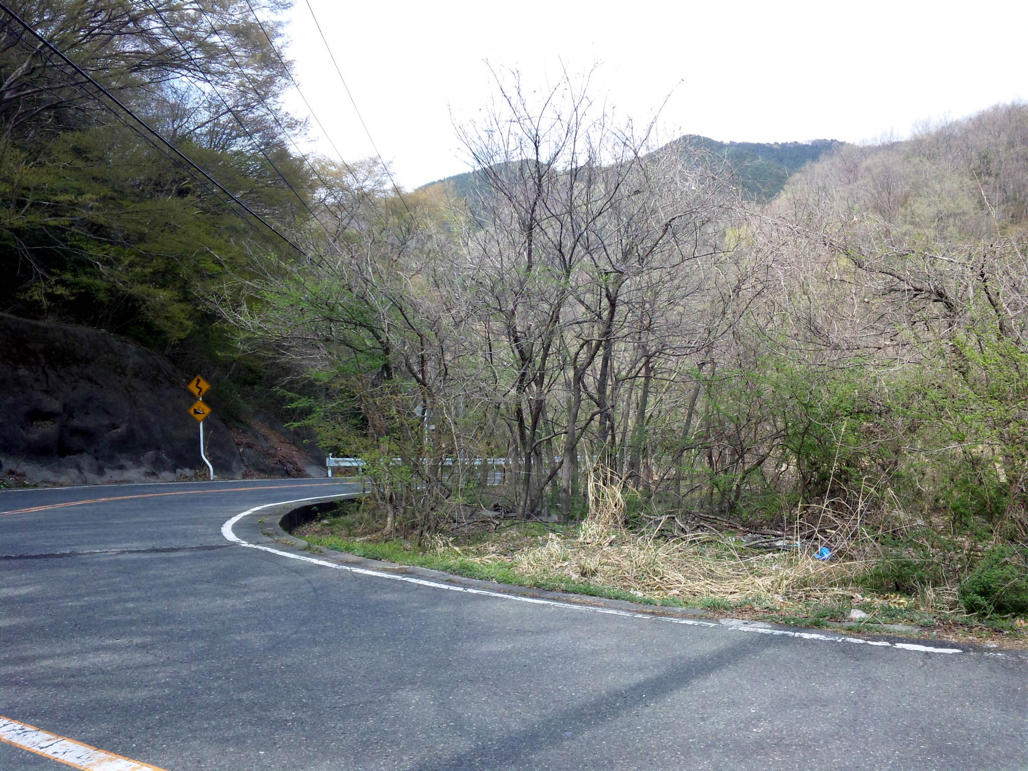 makibatouge